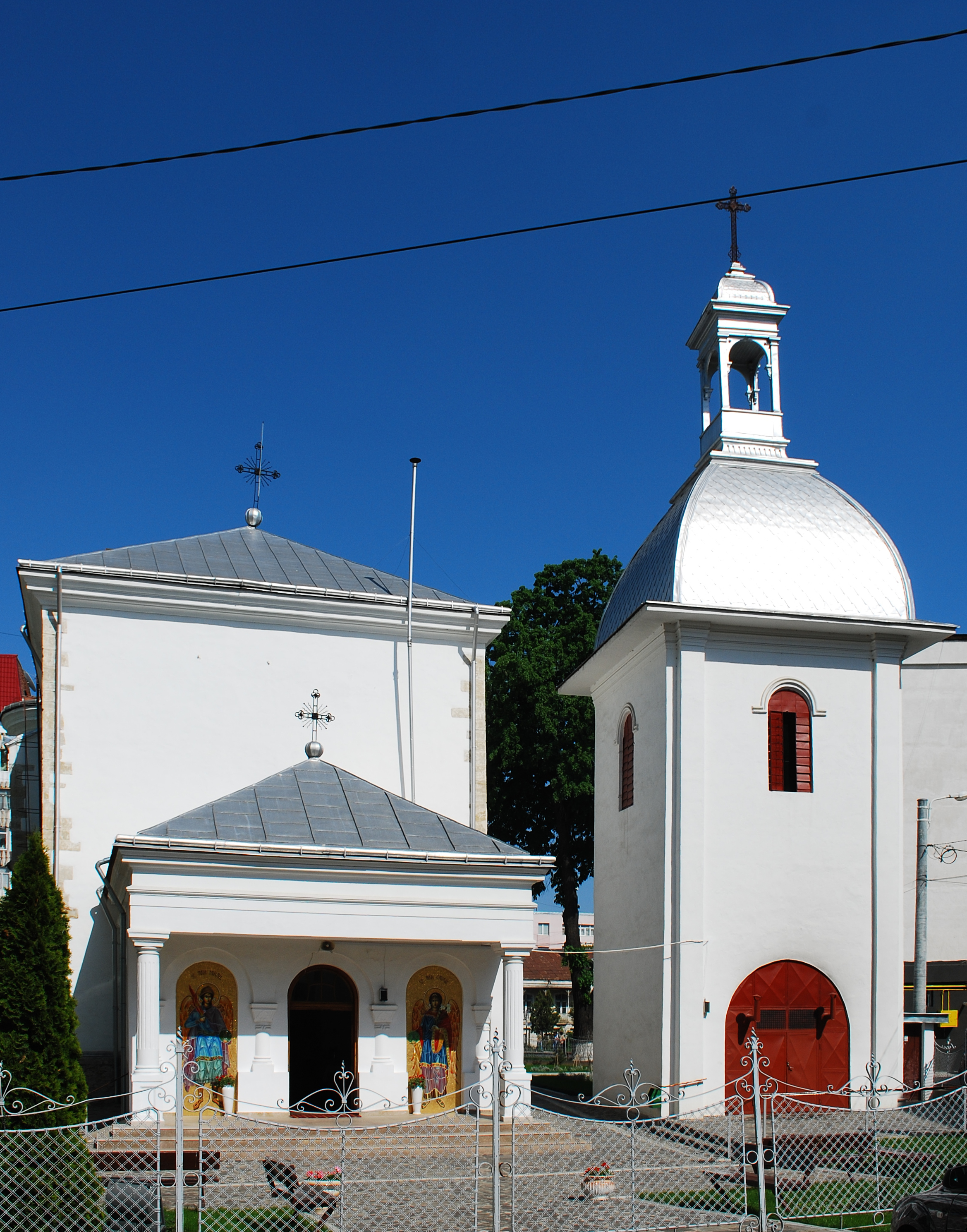 White Church (Holy Voivods) in Roman, Neamț County, Romania, and its belfryRomână: Biserica Albă Domnească (Sfinții Voievozi) din Roman, județul Neamț, România și clopotnița sa